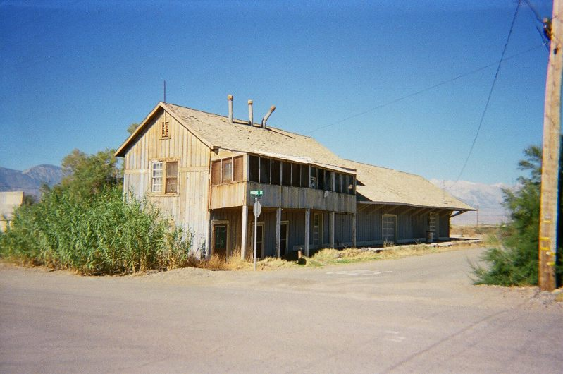 Abandoned train depot in Keeler, CA. Taken by me October 2005